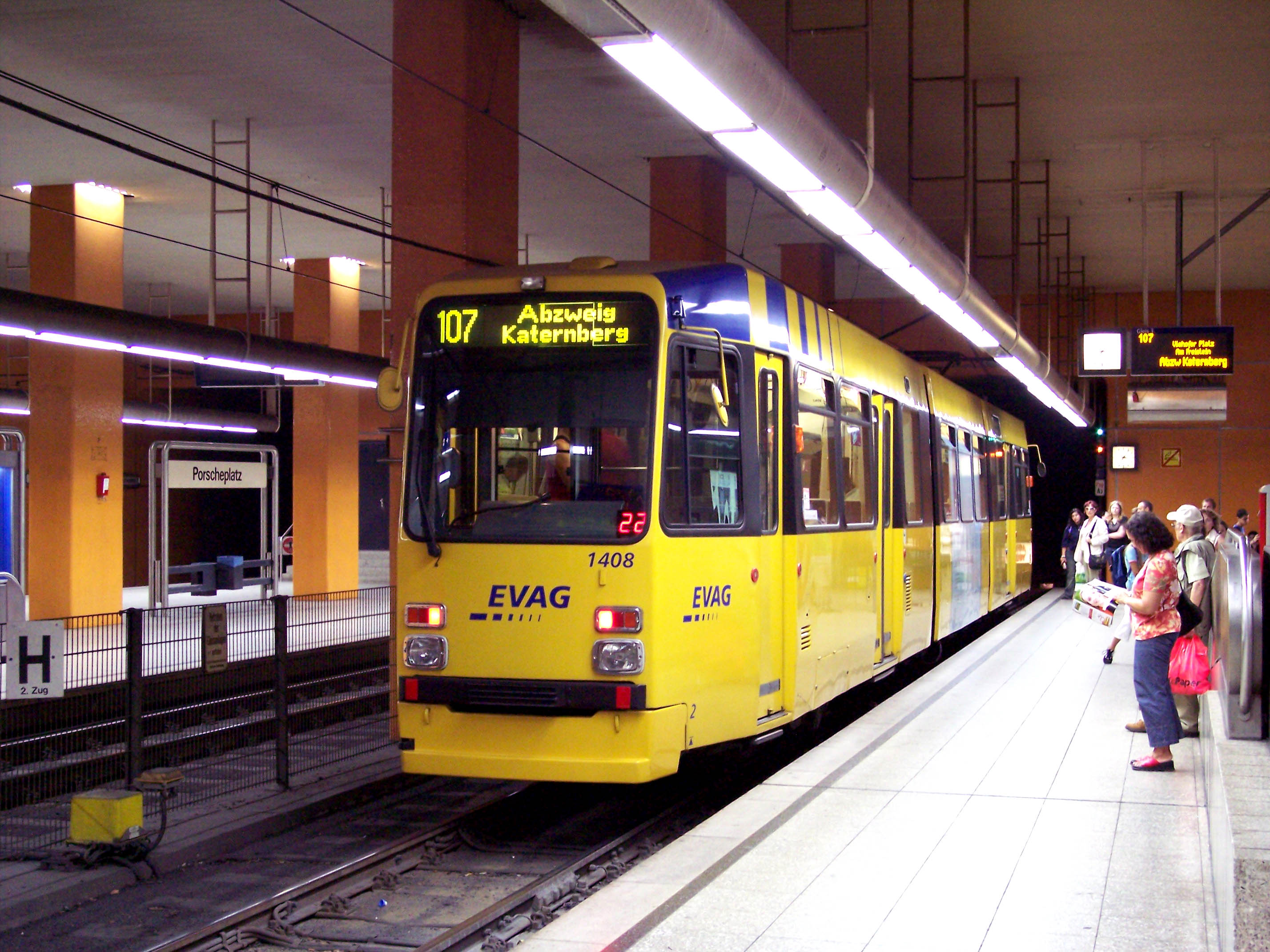 A route 107 tram at Porscheplatz station on the Essen, Germany syestem. The tram is a 1989 DUEWAG M8C, fleetnumber 1408.